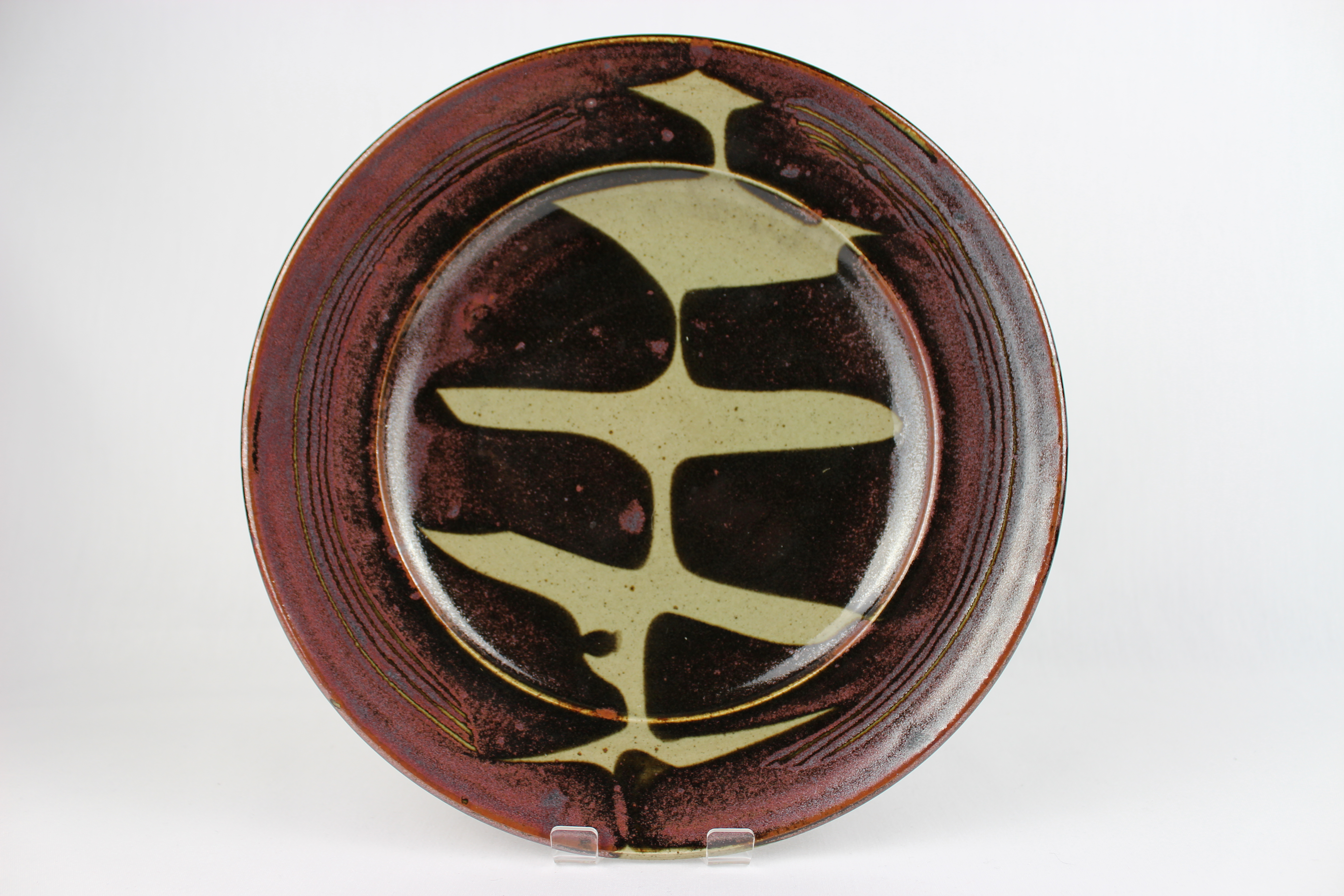 Large plate with poured glaze decoration of iron over grey. From the W.A. Ismay Studio Ceramics Collection at York Art Gallery